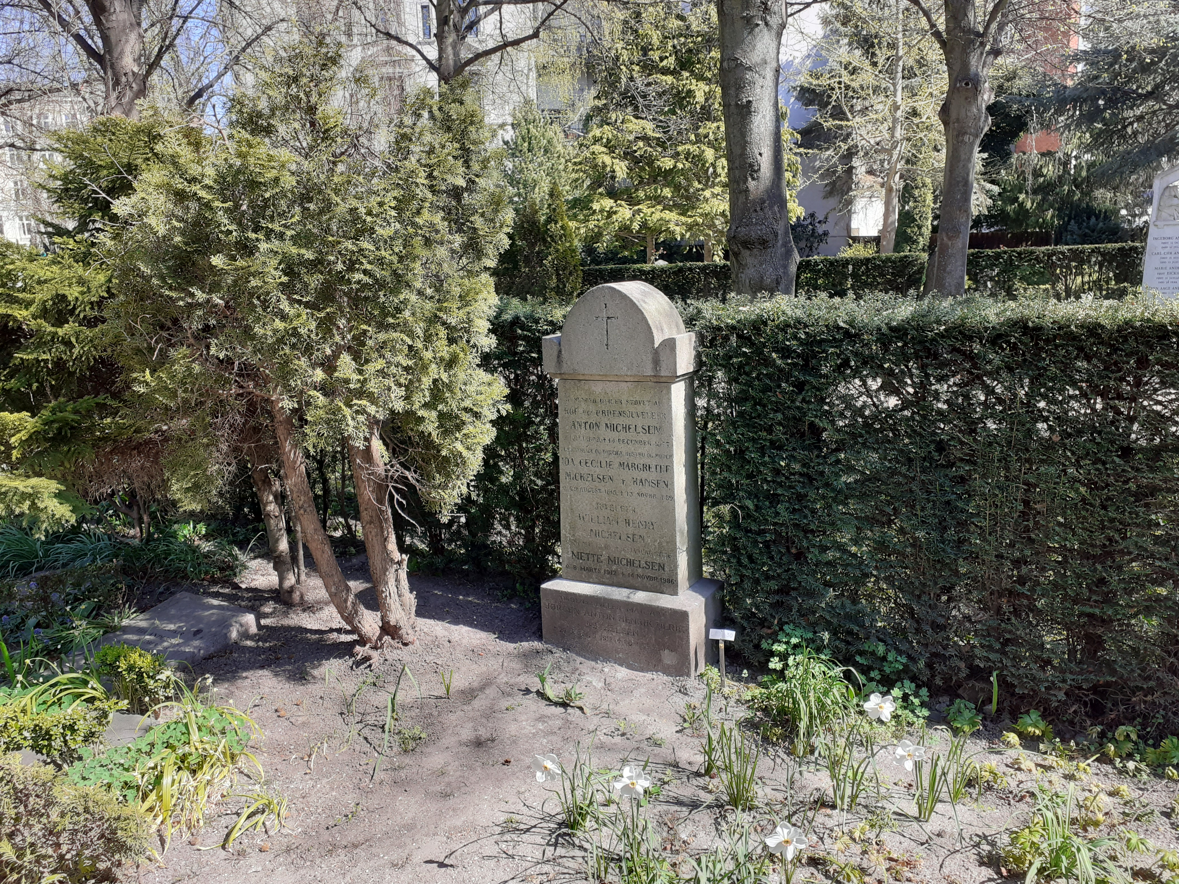 Grave of the goldsmith and court jeweller Anton Michelsen (1809-1877) at Holmens Kirkegård in Copenhagen.